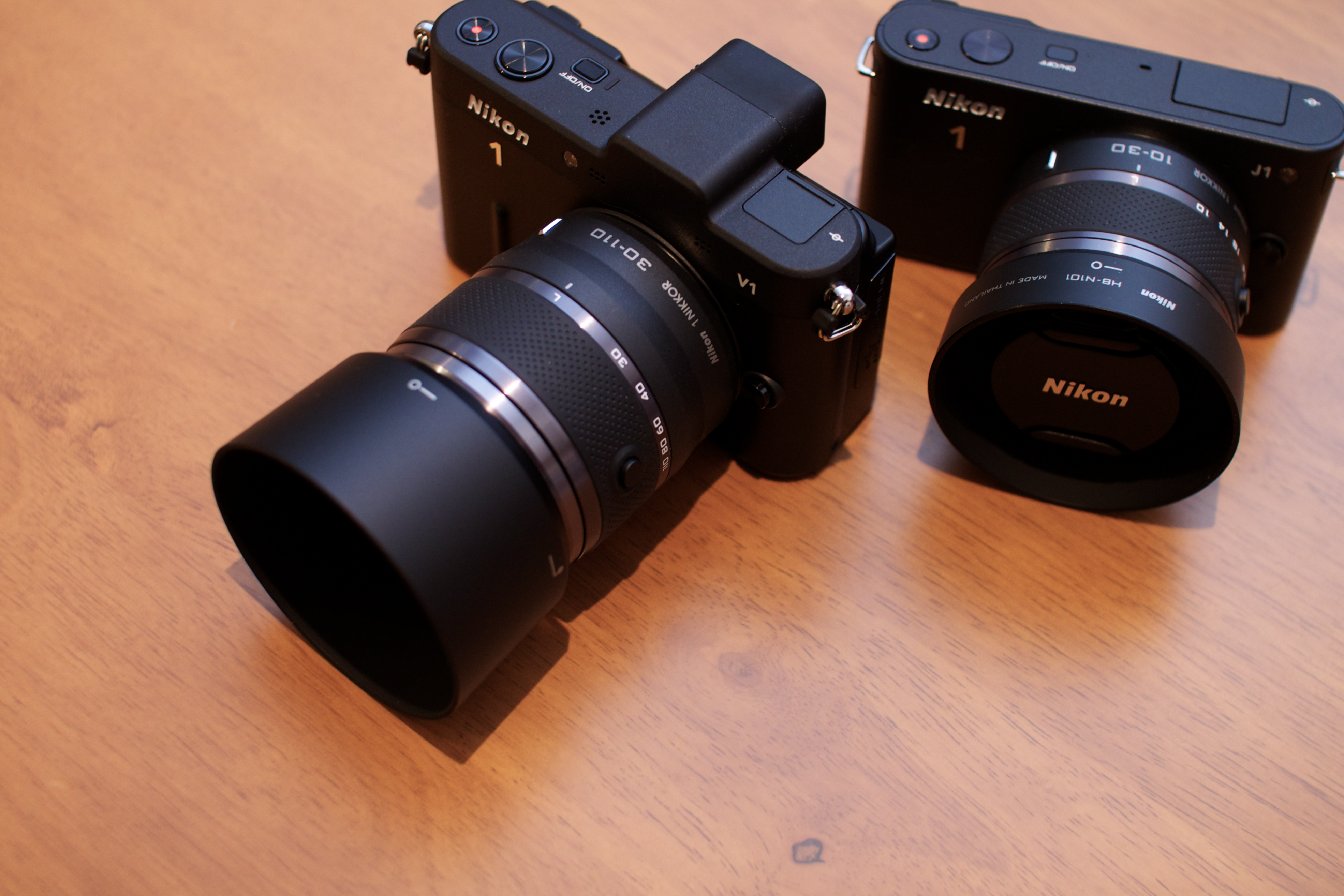 Nikon 1 J1 black with 10-30mm lens and Nikon 1 V1 with 30-110 lens.